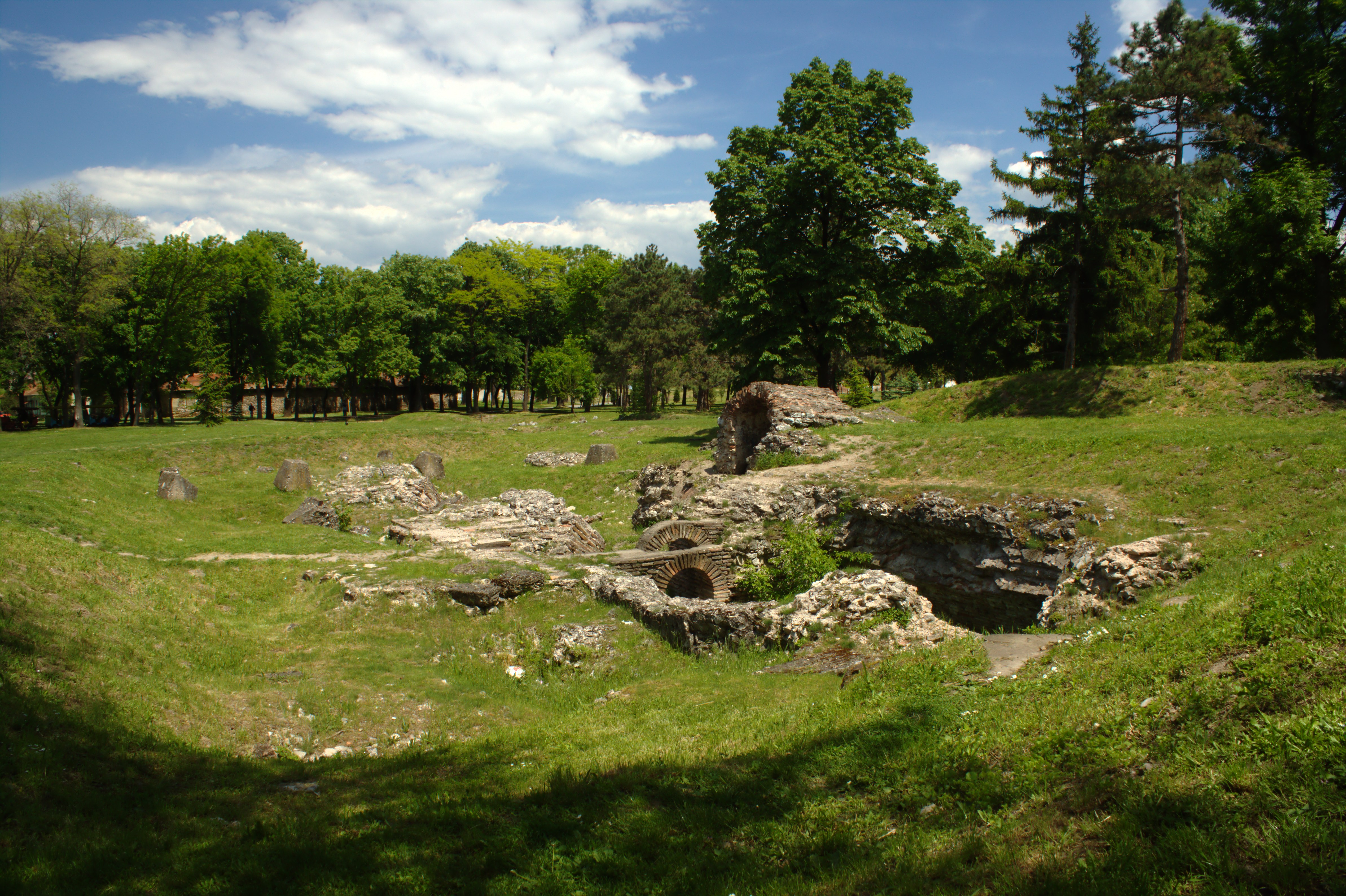 Foundations of one of the old turkish buildings at Niš fortress, Serbia